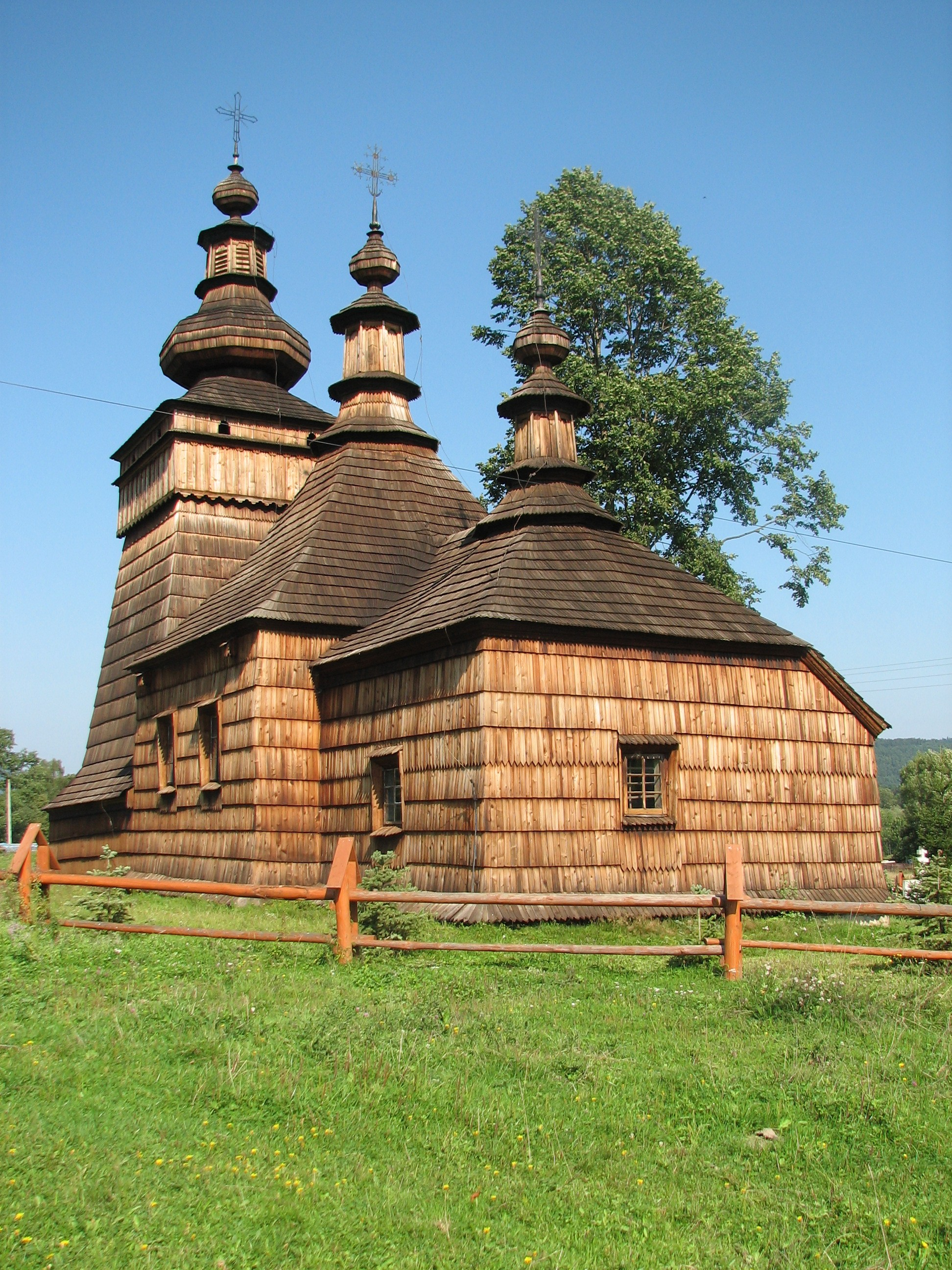 Cerkiew św. Kosmy i Damiana w Skwirtnem.